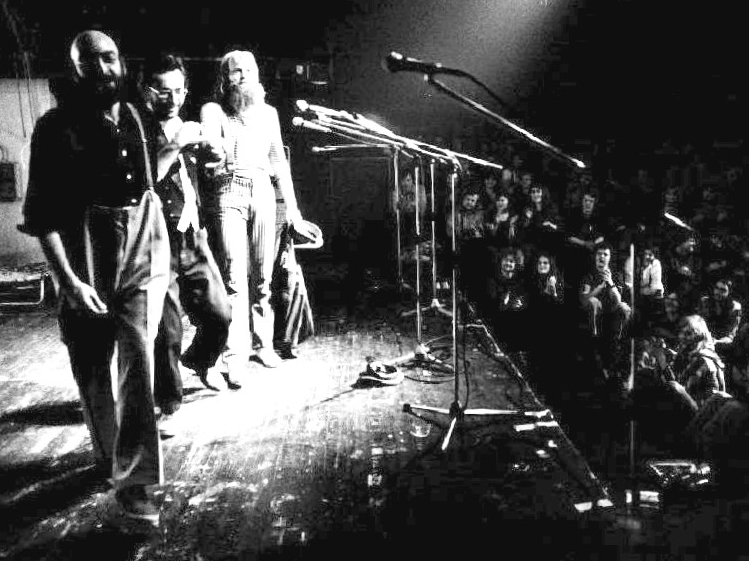 The cabarett 'Die 3 Tornados', performance in 'Markthalle' Hamburg (Germany), 1980 : vlnr: Günter Thews, Hans-Jochen Krank, Arnulf Rating.